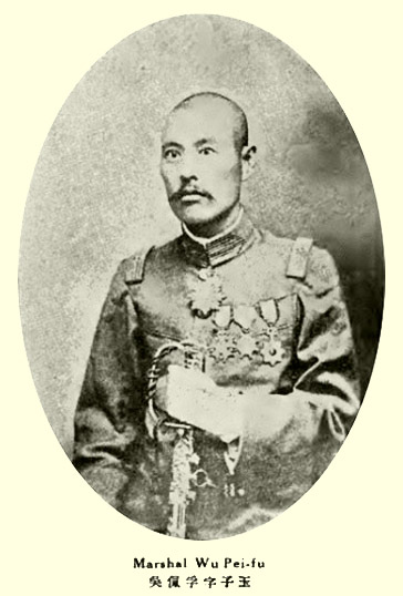 Wu Peifu (1874-1939)